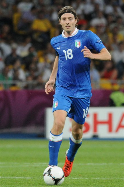 Riccardo Montolivo at Euro 2012 match against England